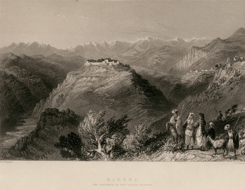 John Carne. Syria, The Holy Land, Asia Minor, &c. Illustrated. In a series of views, drawn from nature by W.H. Bartlett, William Purser, &c., London, Fisher, Son & Co., 1836-1838.